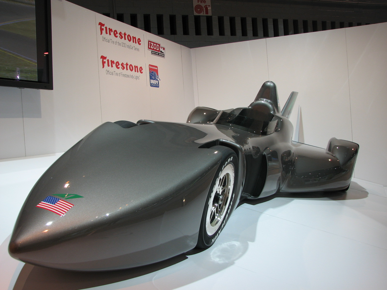 The 2010 DeltaWing IndyCar concept